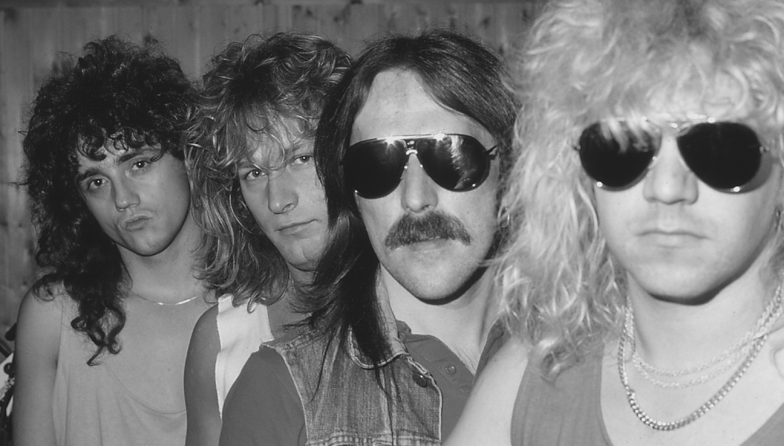 Sinner before release of their 1987-Album: Dangerous Charm